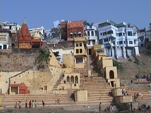 See Varanasi Development Cooperation Handbook/Stories/Responsible Development - Varanasi The Varanasi Heritage Dossier Kautilya Society Play media Vrinda Dar - How we got involved in heritage protection of Varanasi